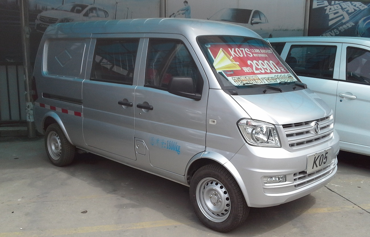 Dongfeng Sokon K07S photographed in Xi'an, Shaanxi province, China.